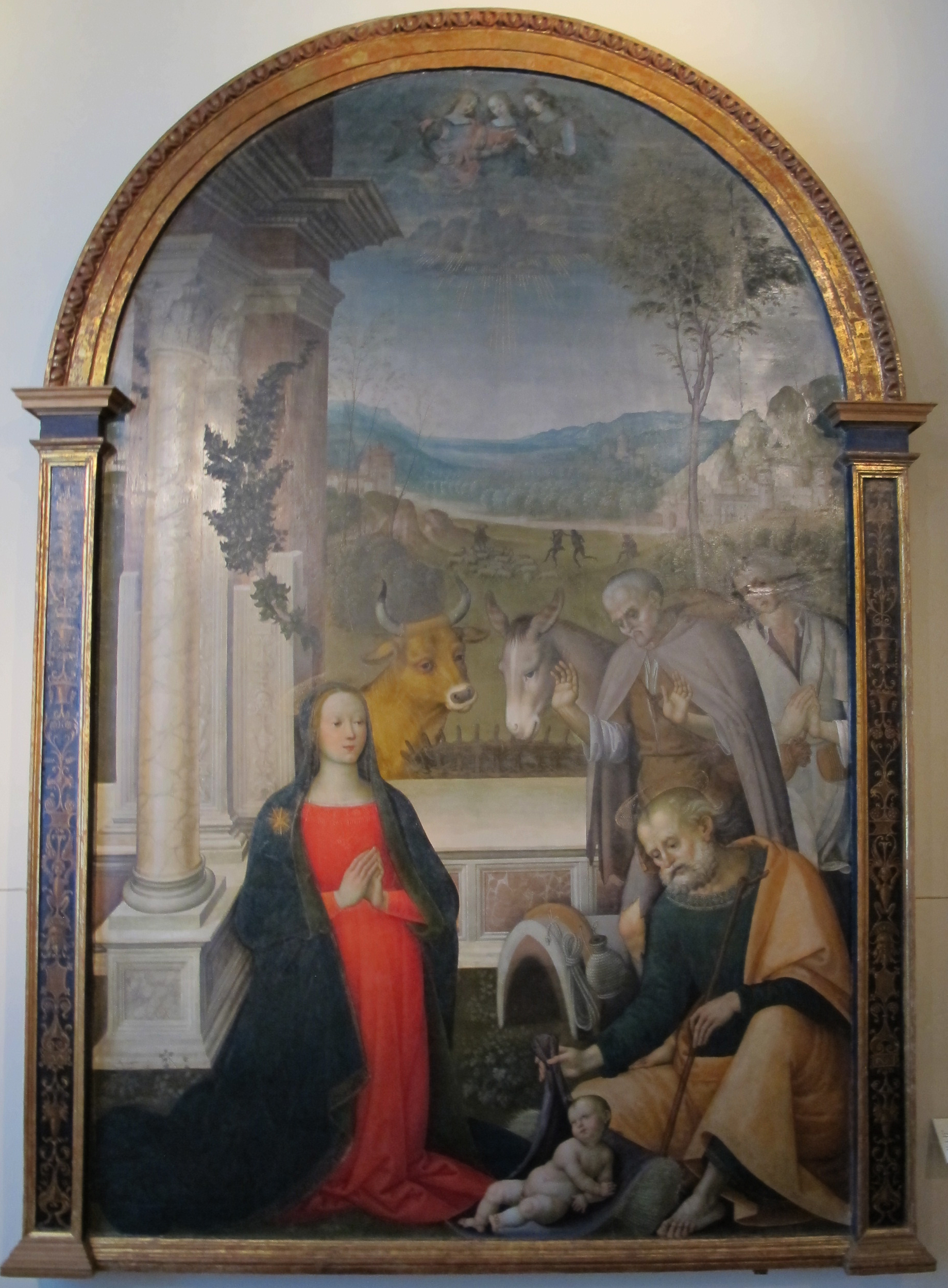 The Adoration of the Shepherds